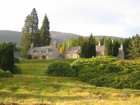 Allt-na-giubhsaich Lodge This lodge, on the Balmoral Estate, is now let by the Estate on a self-catering basis to members of the public.